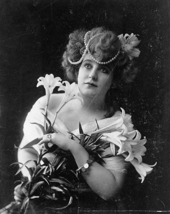 Young woman holding lilies.